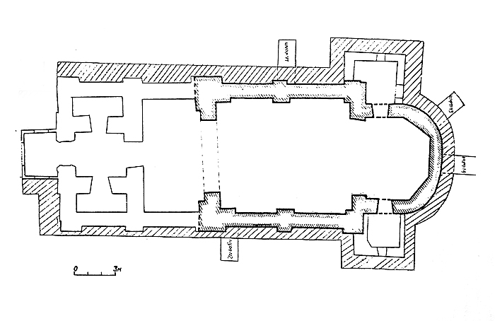 Intercession of the Theotokos church